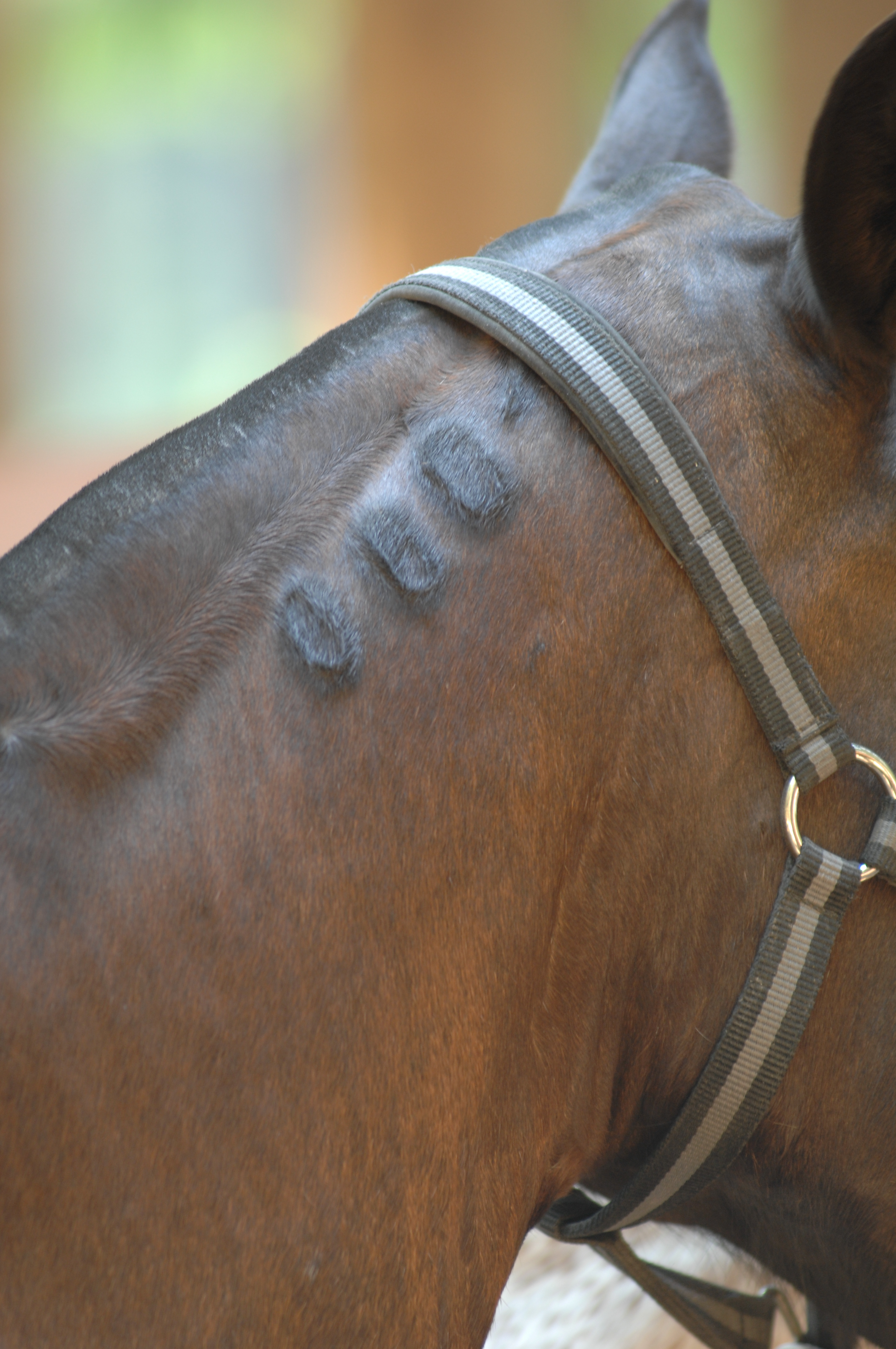 Polohorse Brand